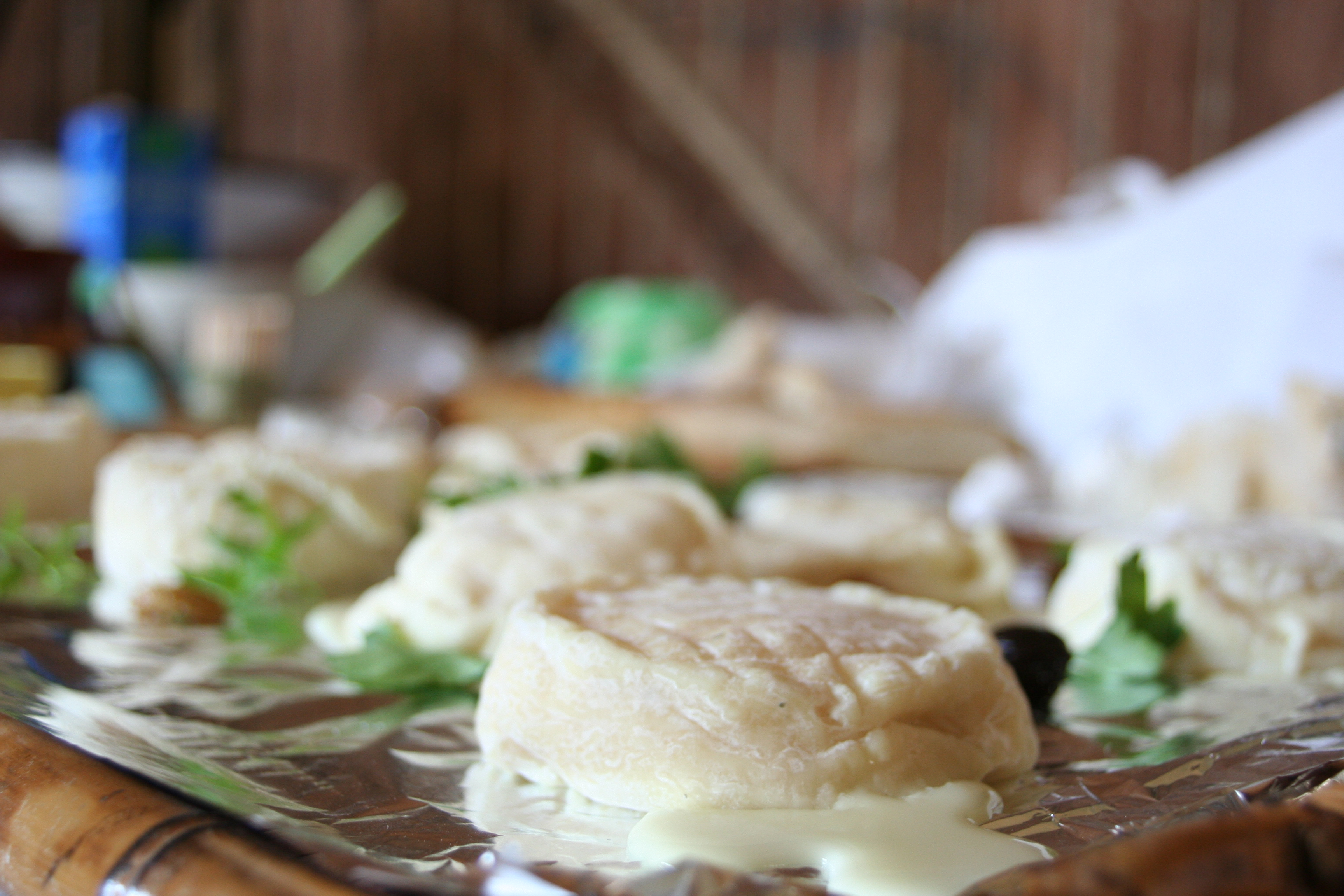 Runny Pélardons